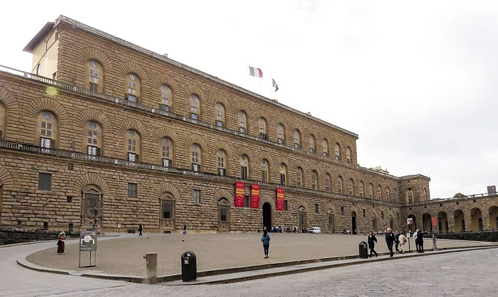 Palazzo Pitti (Pitti Palace), piazza de' Pitti, Florence